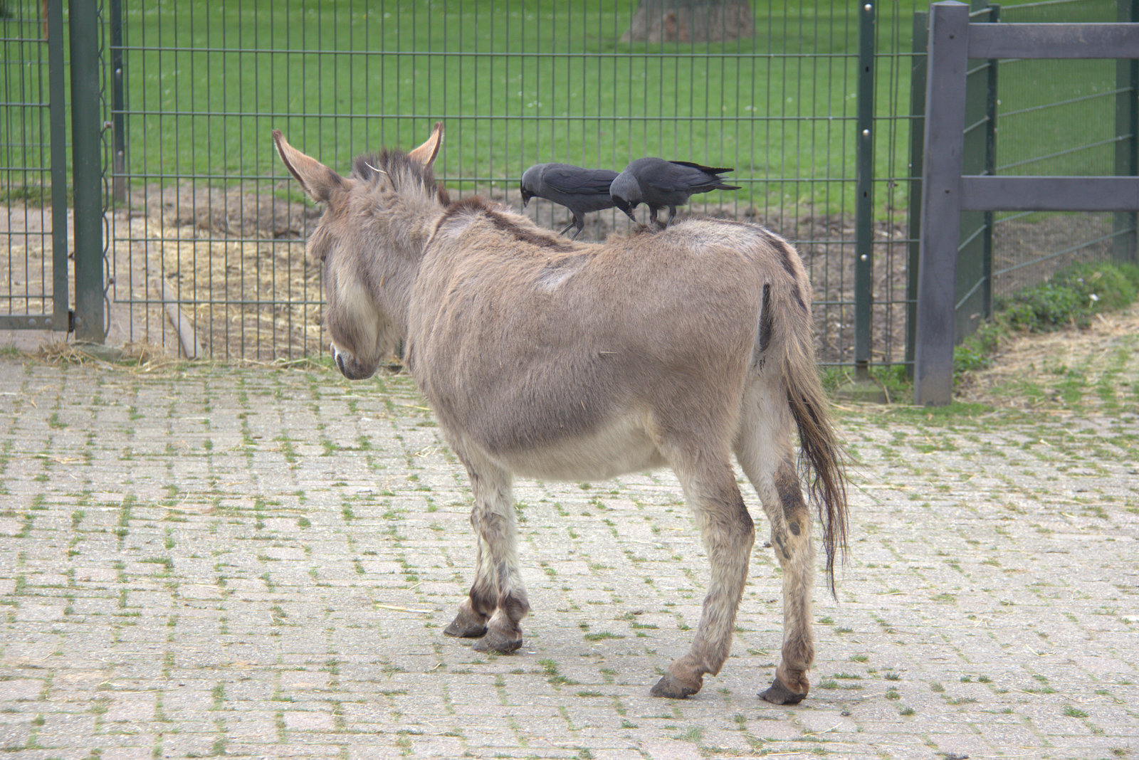 Two crows eating on the back of a donkey